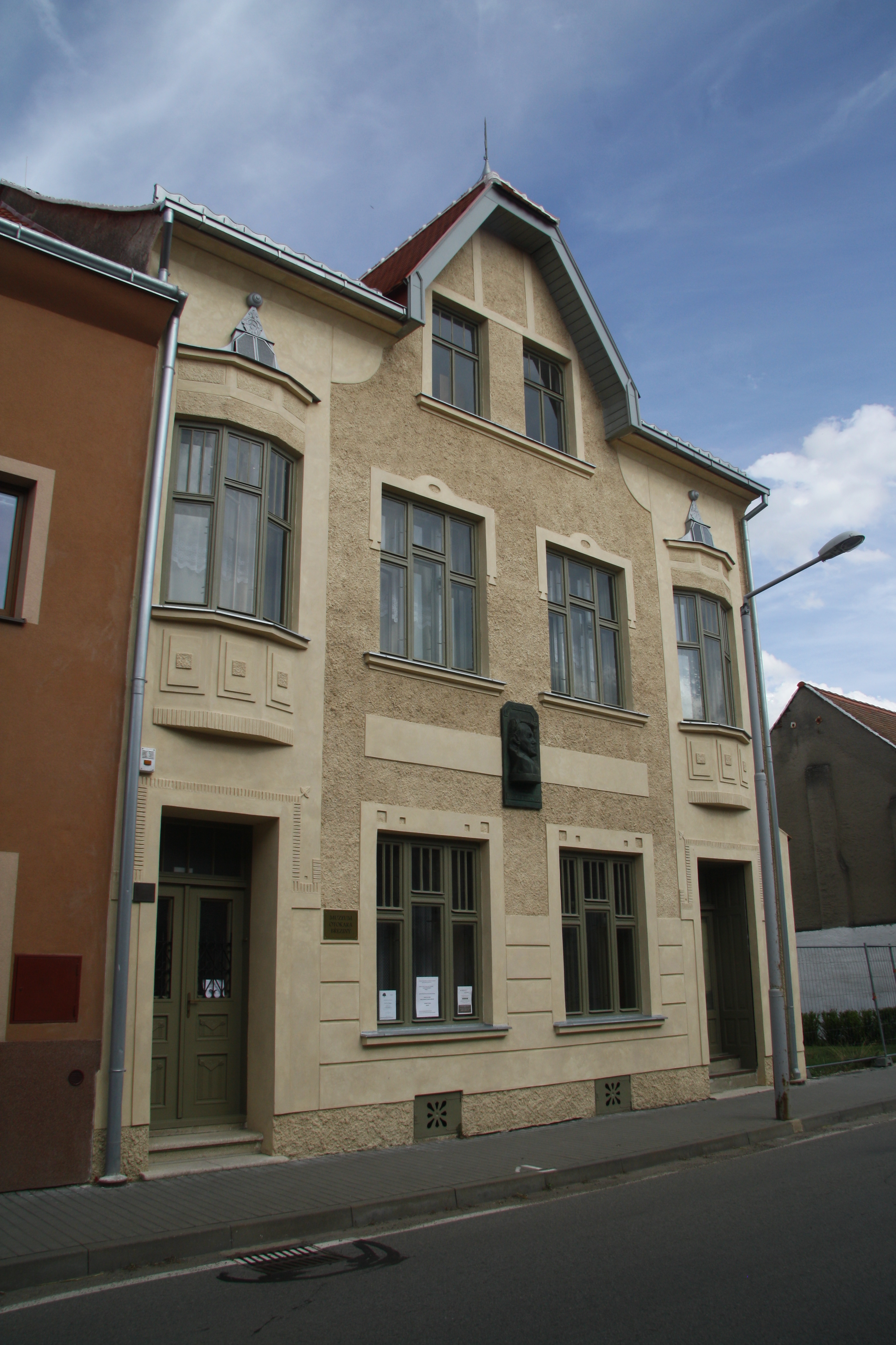 Overview of Museum of Otokar Březina at Březinova street in Jaroměřice nad Rokytnou, Třebíč District.